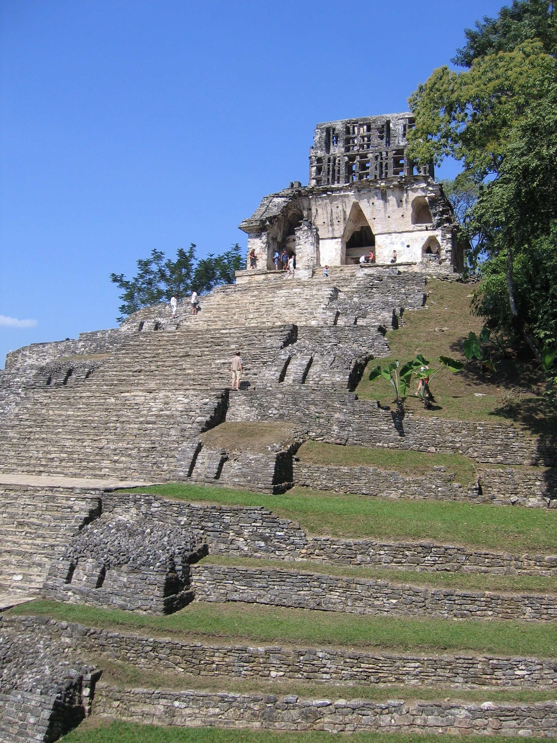 Image from the Mayan ruin site Palenque.